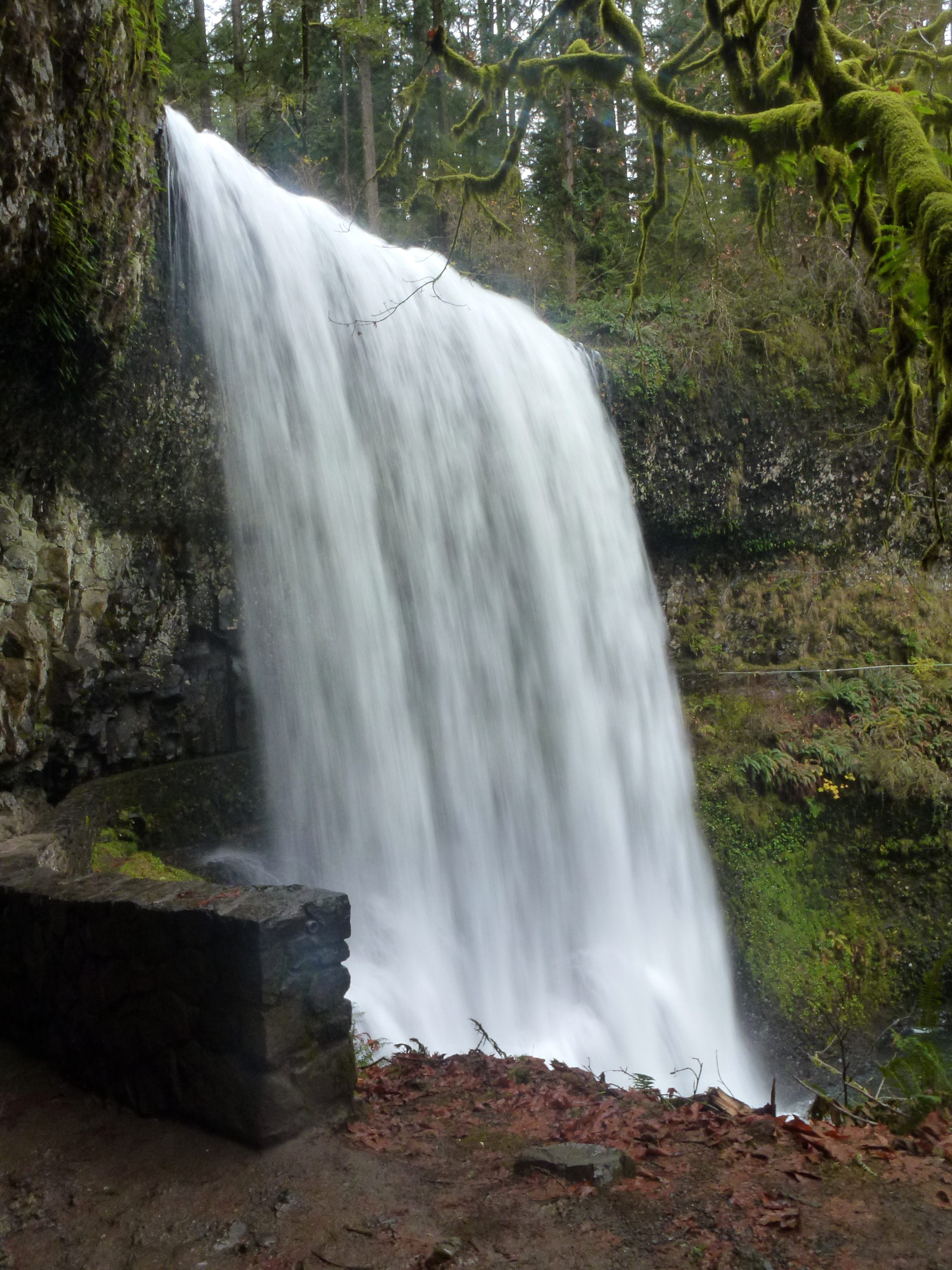 93-foot (28 m) tall Lower South Falls in Silver Falls State Park.